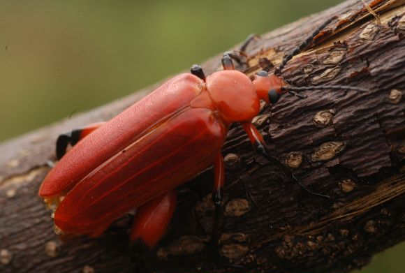 Genus Horia of the family Meloidae. From Bannerghatta